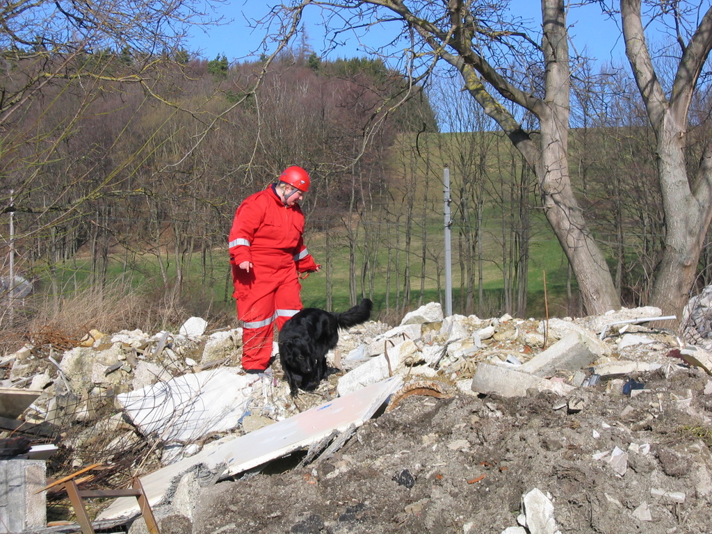 A search and rescue dog training event. Breed pictured unknown.